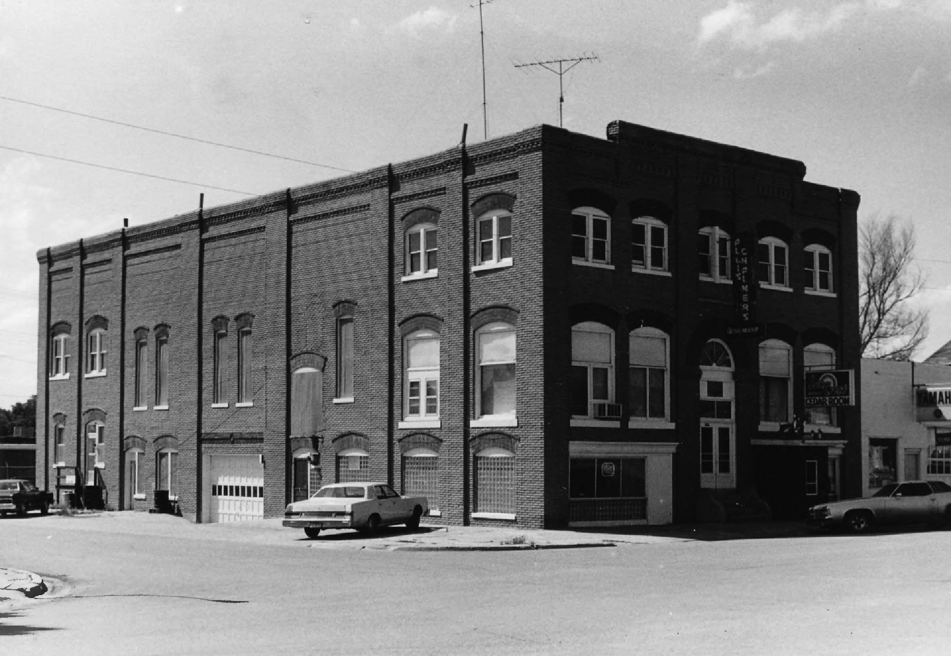 The historic Pospeshil Theatre (built 1906), formerly located at 123 Broadway in Bloomfield, Nebraska, United States, is listed on the U.S. National Register of Historic Places. The building was subsequently destroyed by fire. Caption in source document: Exterior view, looking northwest at the east (front) and south facades.